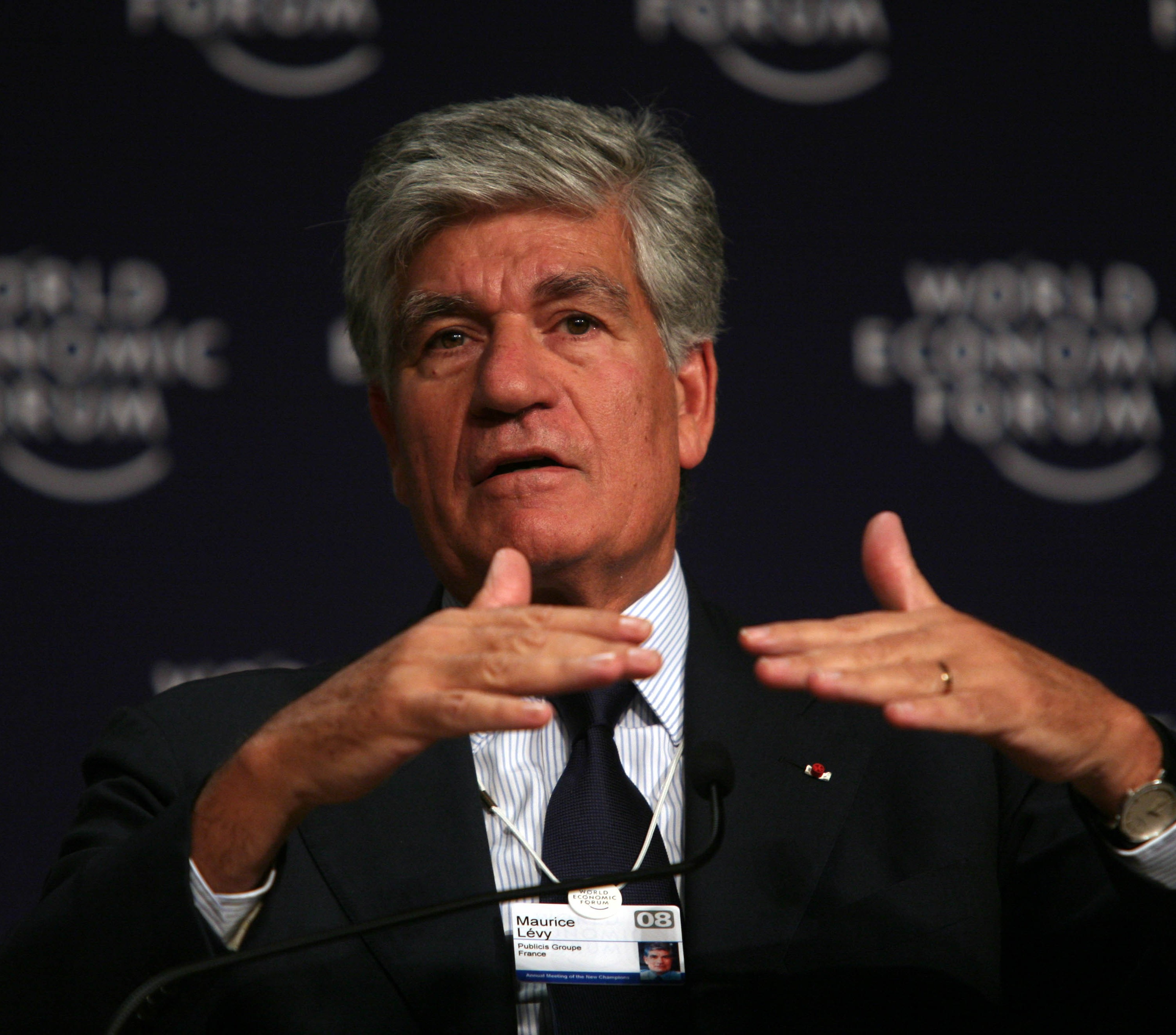 Maurice Lévy speaks during a plenary session at the World Economic Forum Annual Meeting of the New Champions in Tianjin, China 28 September 2008.